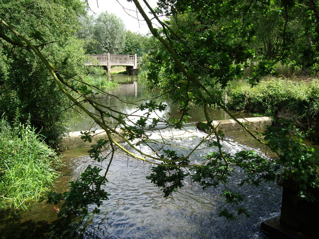 Langford Mill The bridge and river at Langford Mill.